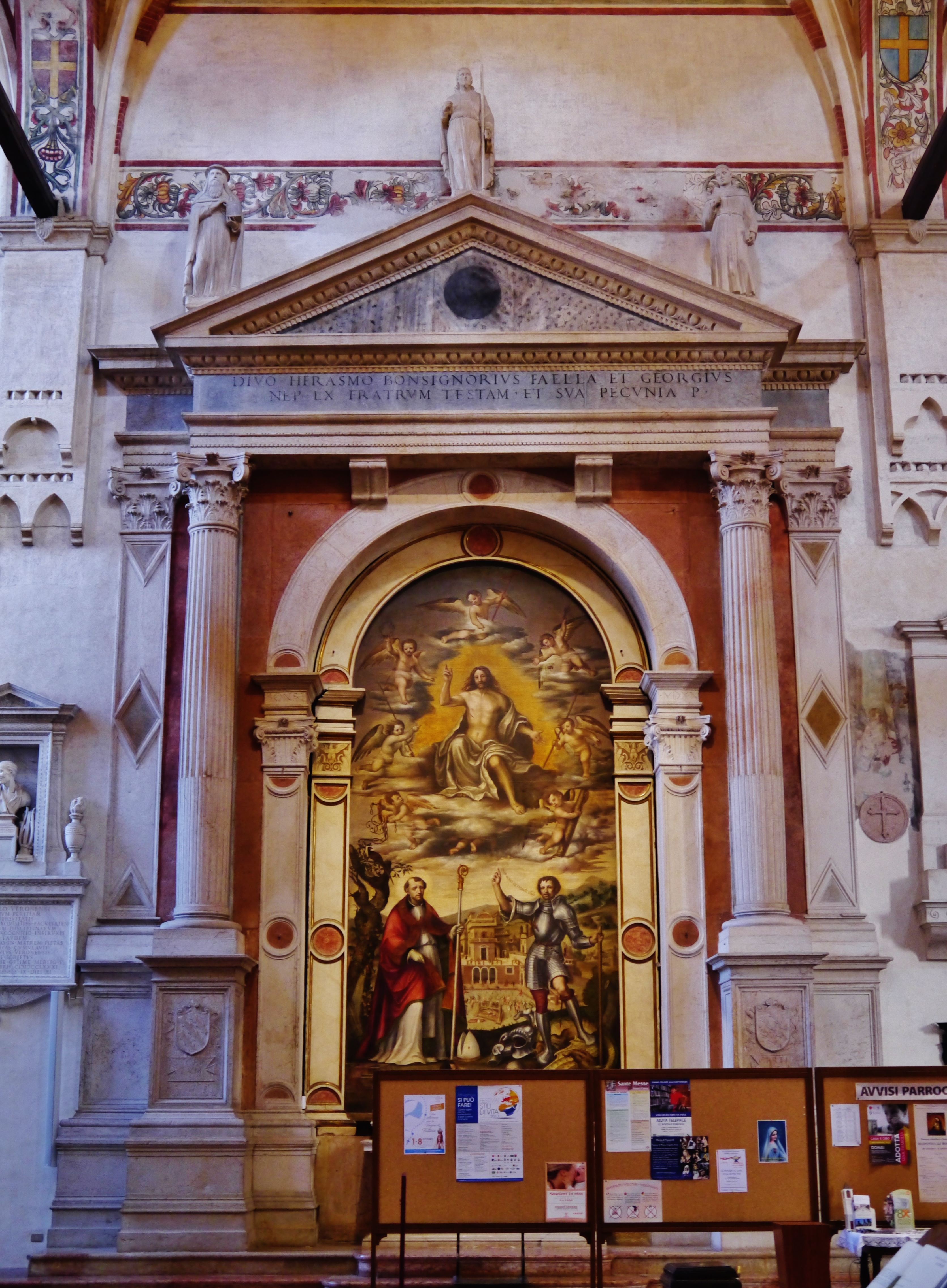 Side Altar at the Church of St. Anastasia, Verona, Province of Verona, Region of Veneto, Italy